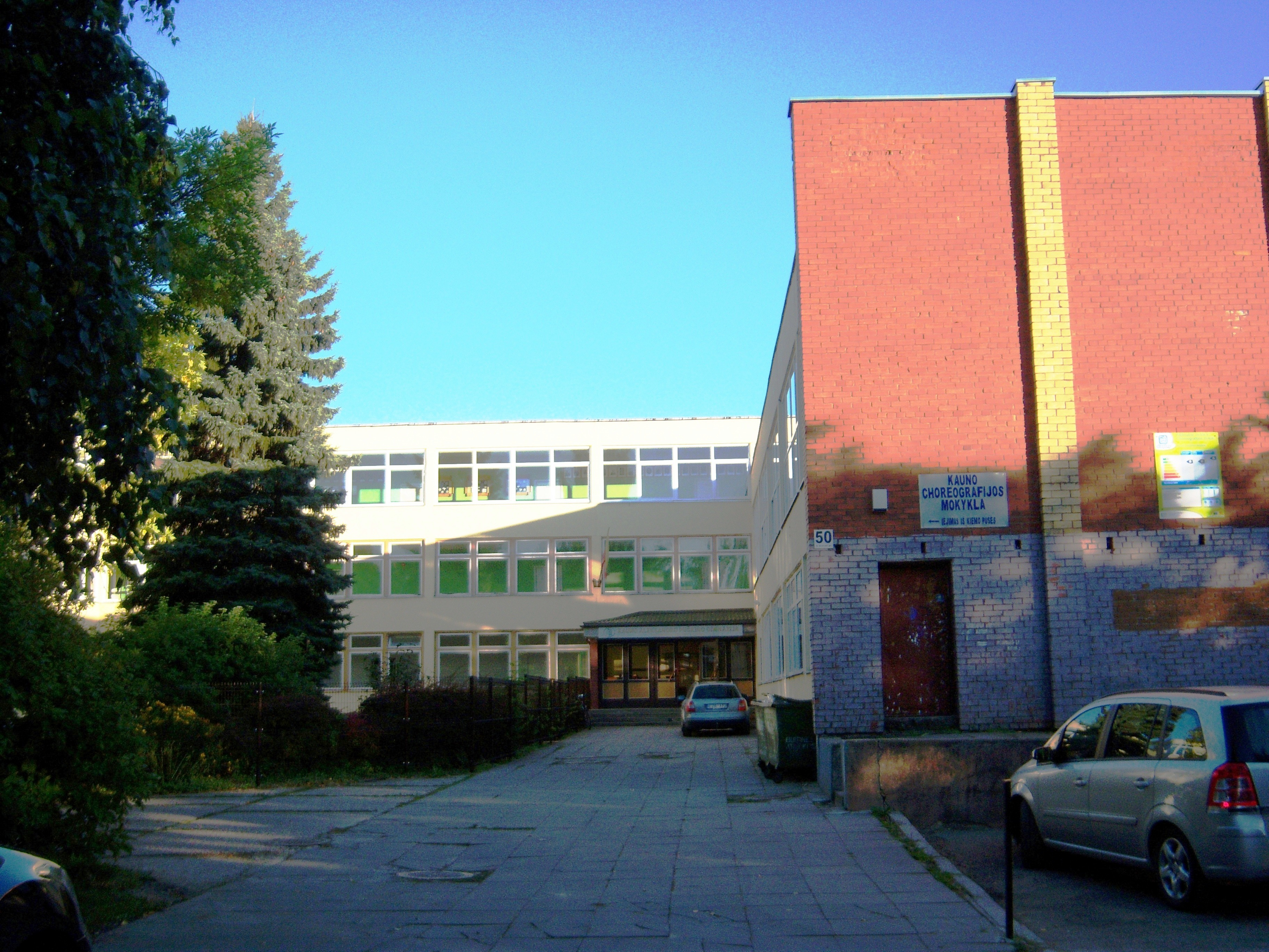 Gymnasium of A. Pushkin, Basic Education Department, Kaunas, Lithuania